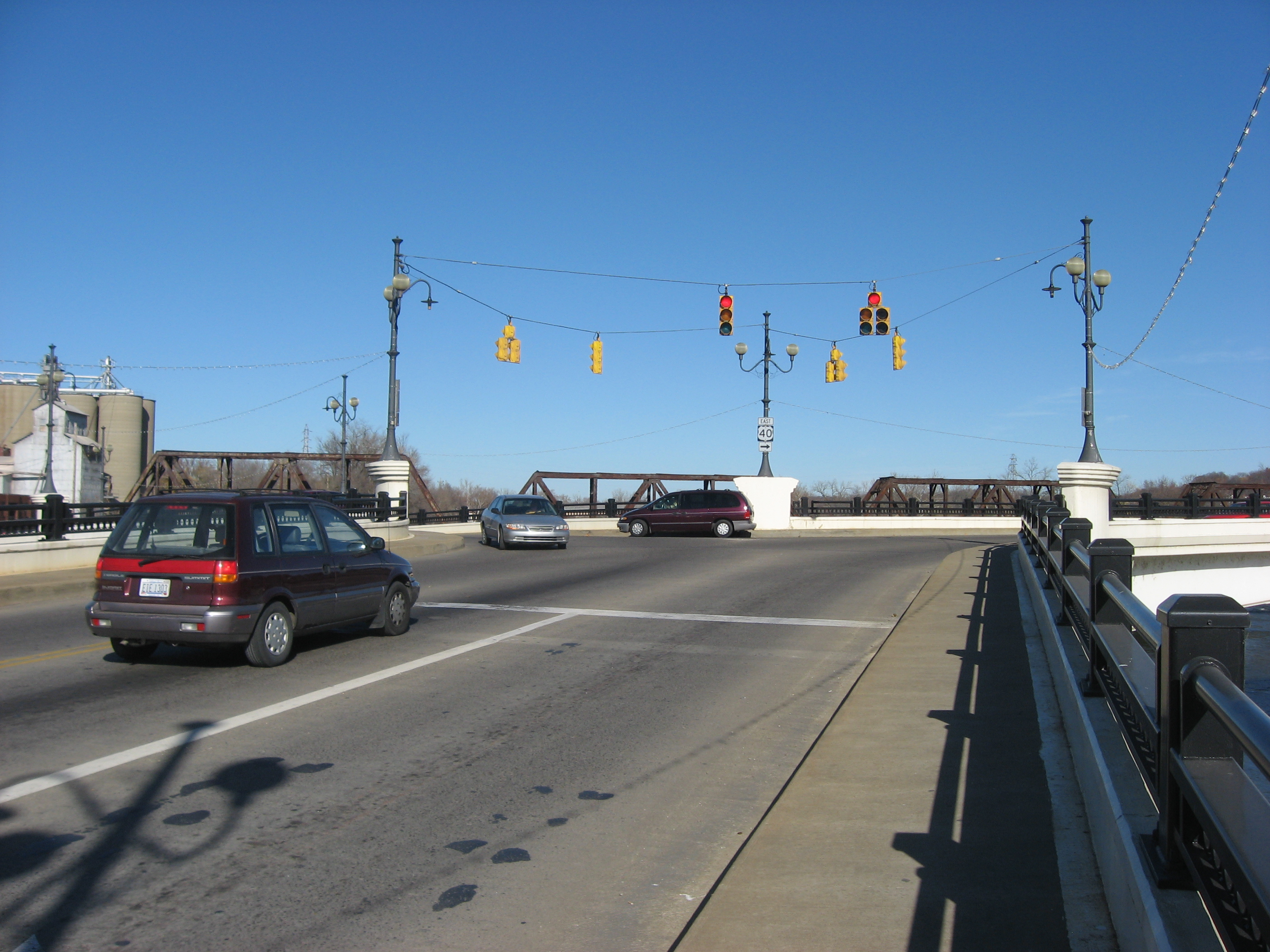 Intersection in the middle of the Y Bridge, which carries U.S. Route 40 over the confluence of the Muskingum and Licking Rivers at Zanesville, Ohio, United States. Note the three vehicles on the bridge, each of which is going in a different direction. The picture faces eastward: straight ahead crosses the Muskingum into Zanesville; turning around crosses the Muskingum away from Zanesville; and turning left crosses the Licking. The bridge is listed on the National Register of Historic Places.